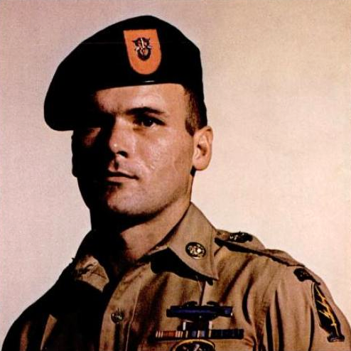 Trade ad for Barry Sadler's single "Ballad of the Green Berets".To better adapt it to his respective Wikipedia article, the ad was cropped and cleaned in a graphics editing program. The original can be viewed at the source below.